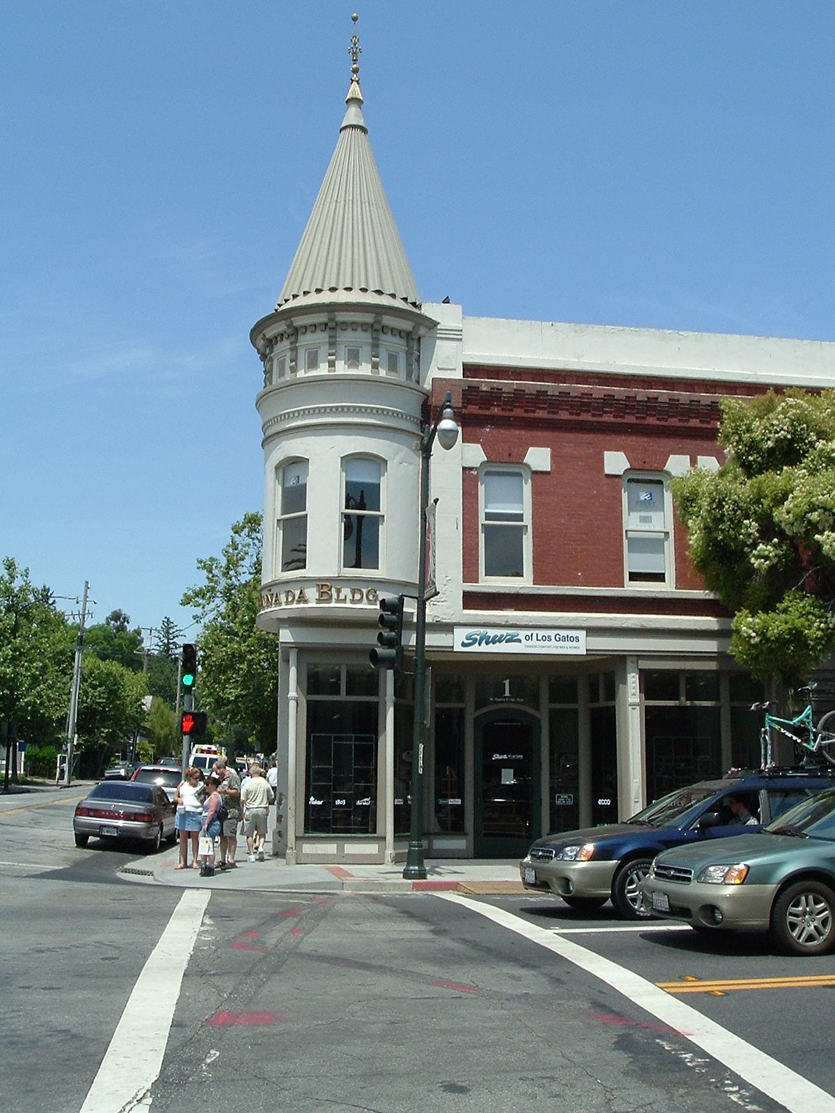 La Canada Building, N. Santa Cruz Ave. Los Gatos, CA